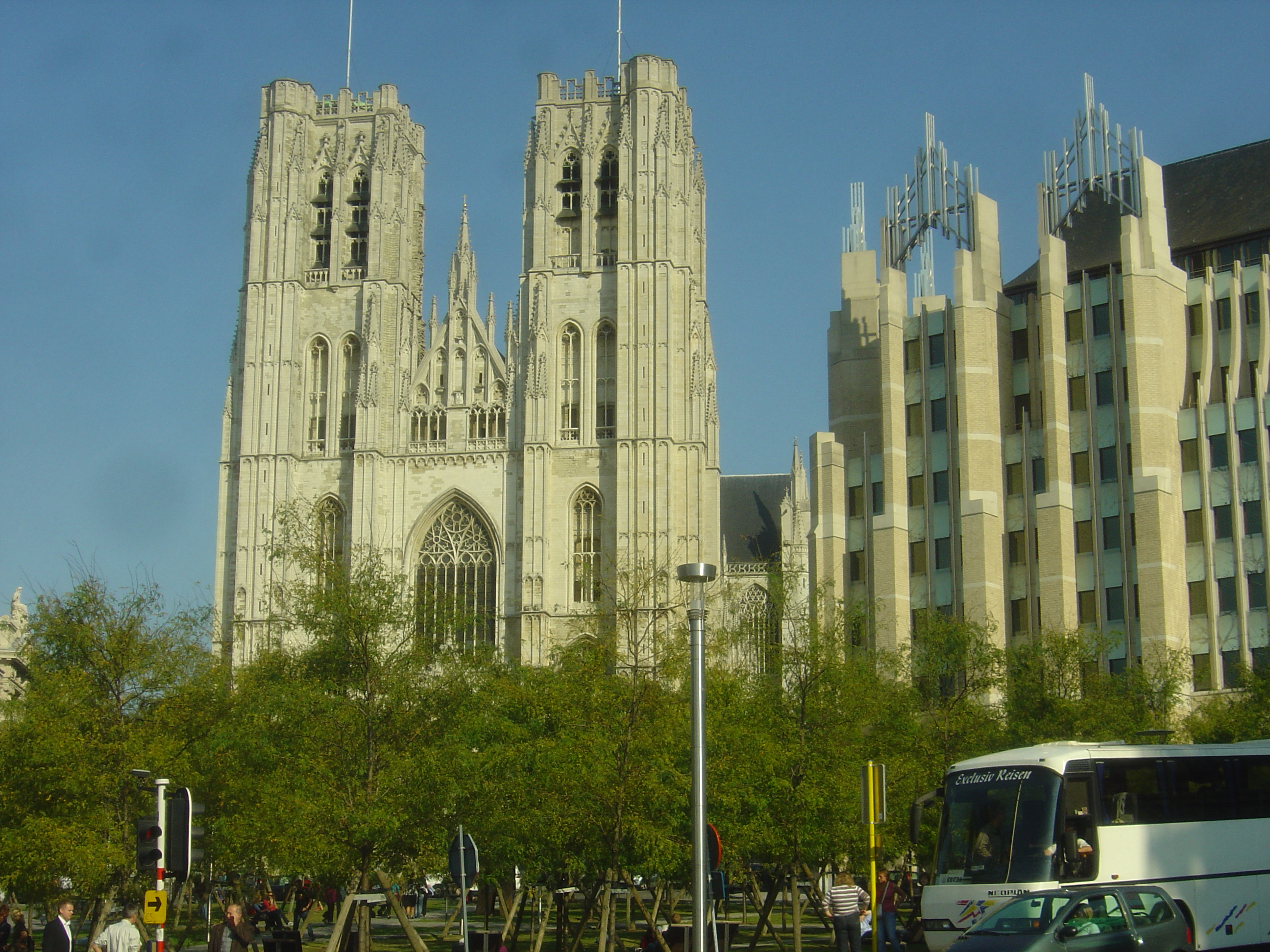 Cathedral of Brussels